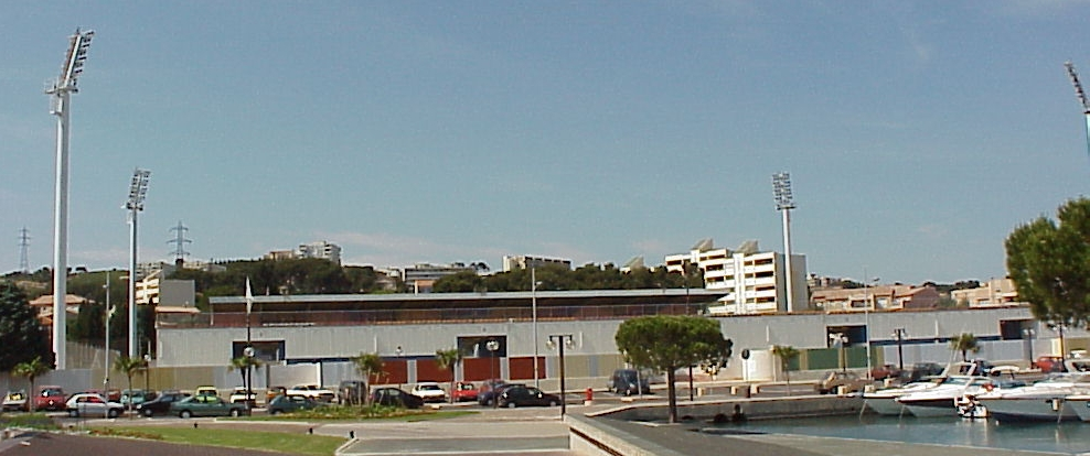 FC Martigues stadium Picture taken by me in 2000